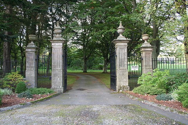 Gateway to Glenkindie House.